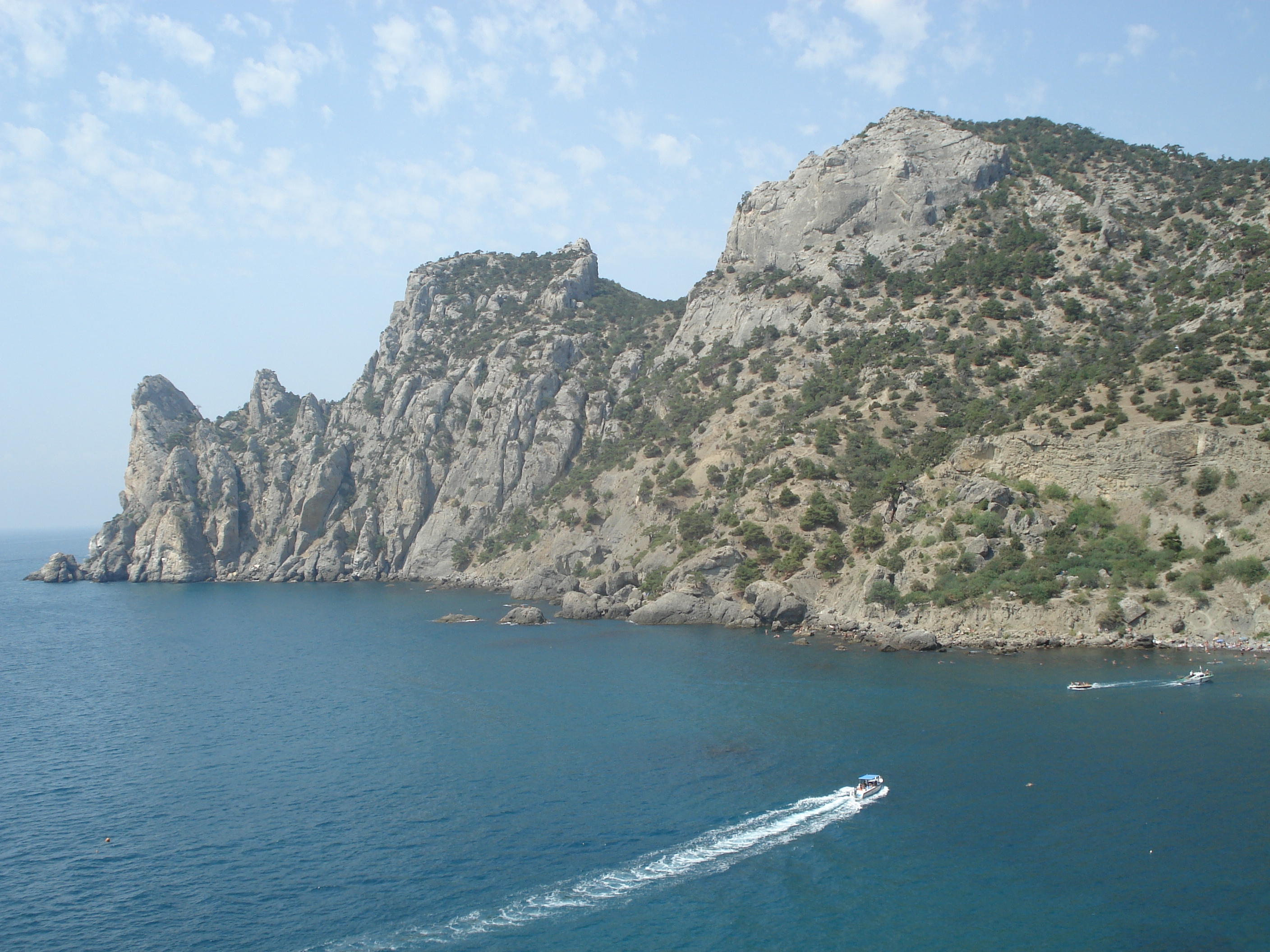 Mount Karaul Oba and Blakytna Bay. Novyj Svit, Crimea, Ukraine.